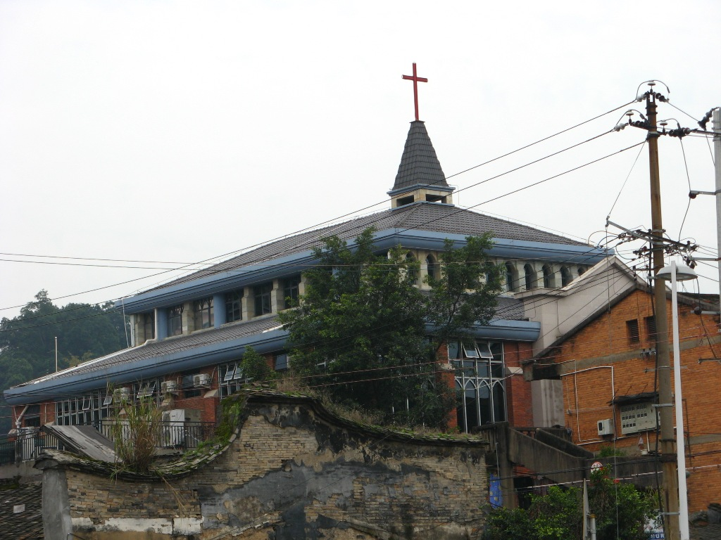 Fuzhou Guan Lane Church